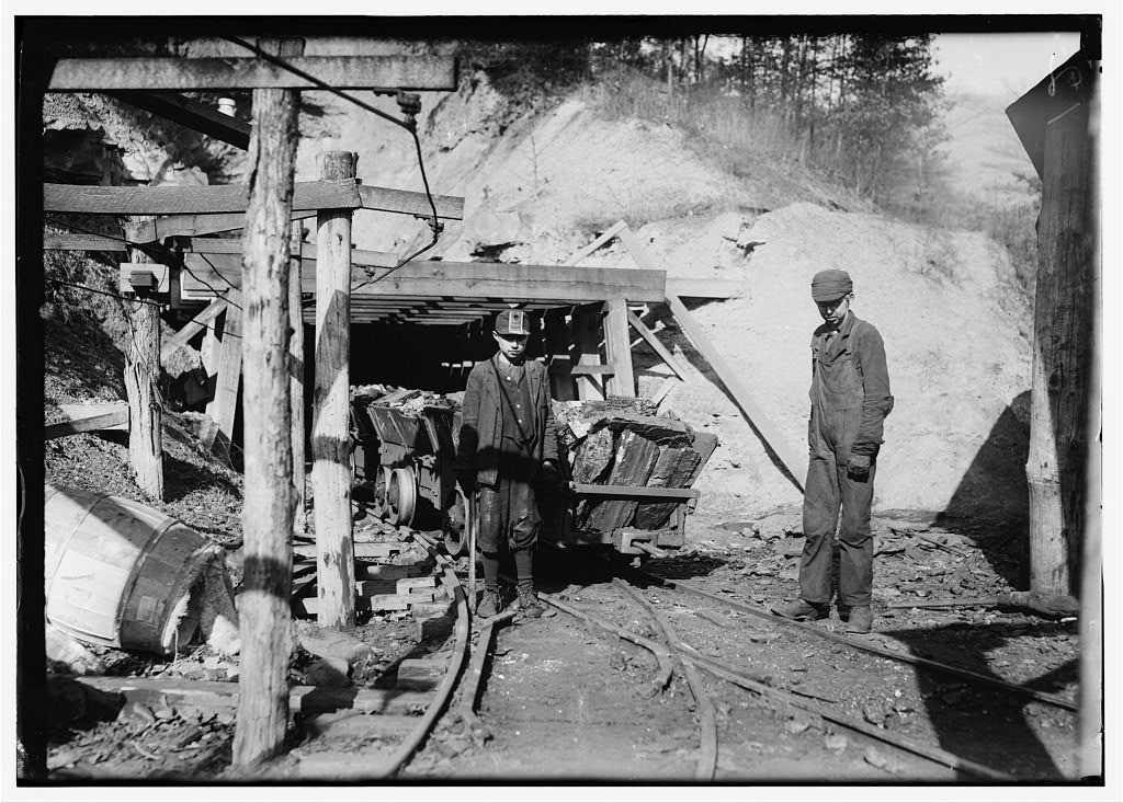 Boys move coal cars at the entrance to the Knoxville Iron Company's mine near Coal Creek (now Lake City) in the U.S. state of Tennessee.